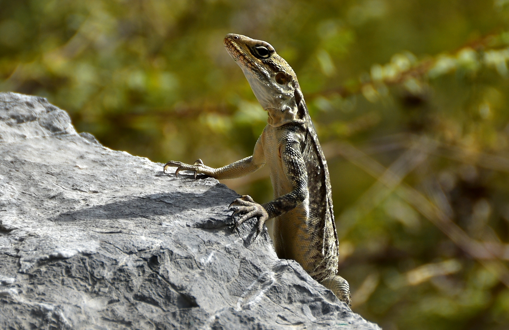 Information: Kashmir Rock Agama, Laudakia tuberculata 6 ISO Rating: 64 Flash used: No Location: Nathiagali / Ayubia Pipeline Track, Ayubia National Park, Pakistan Photo taken on: 31/10/2018 Photograph by Kamran Iftikhar Website